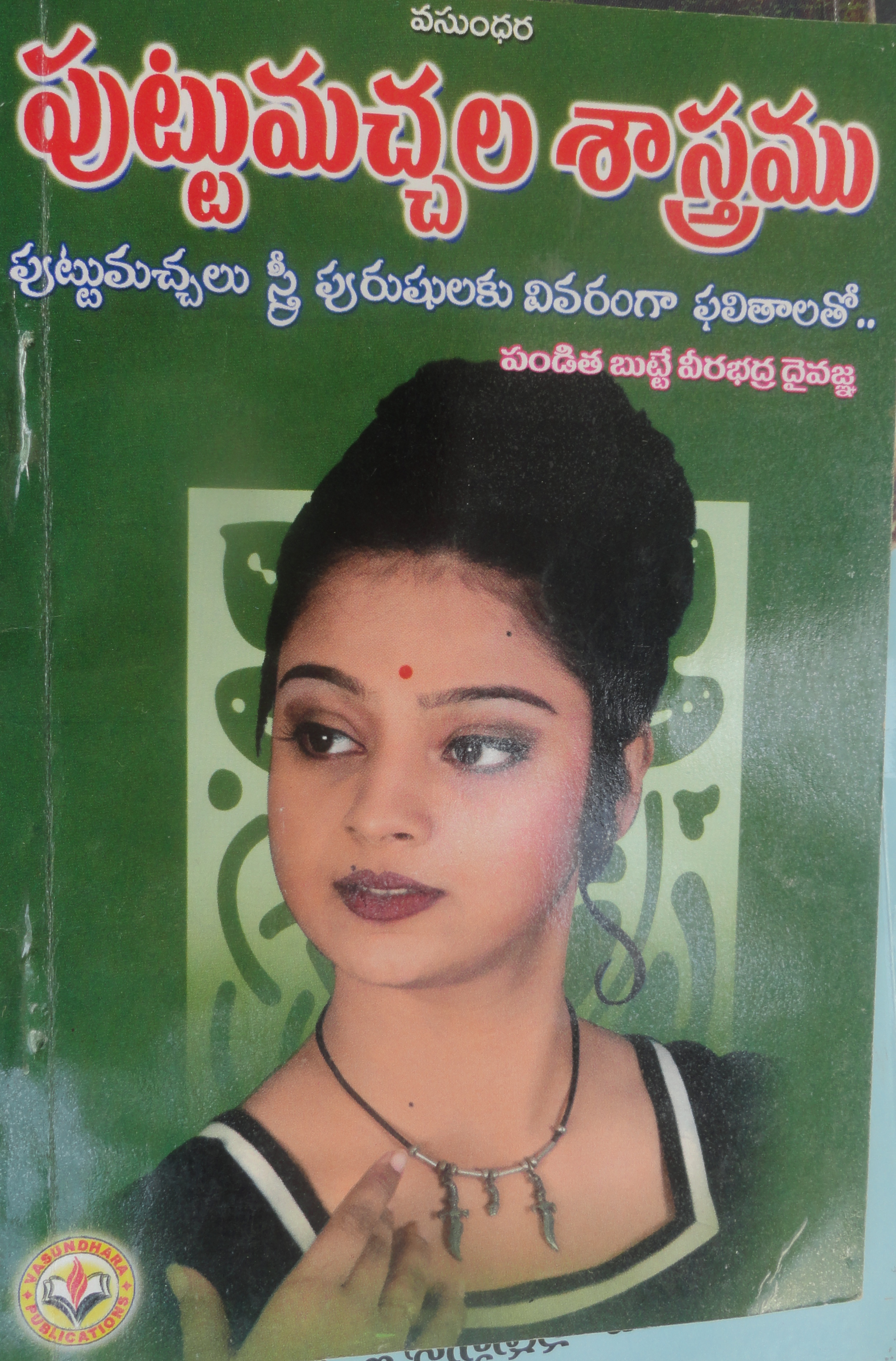 Puttu maccala saastramu/book